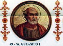 Portrait of Pope Gelasius I in the Basilica of Saint Paul Outside the Walls, Rome